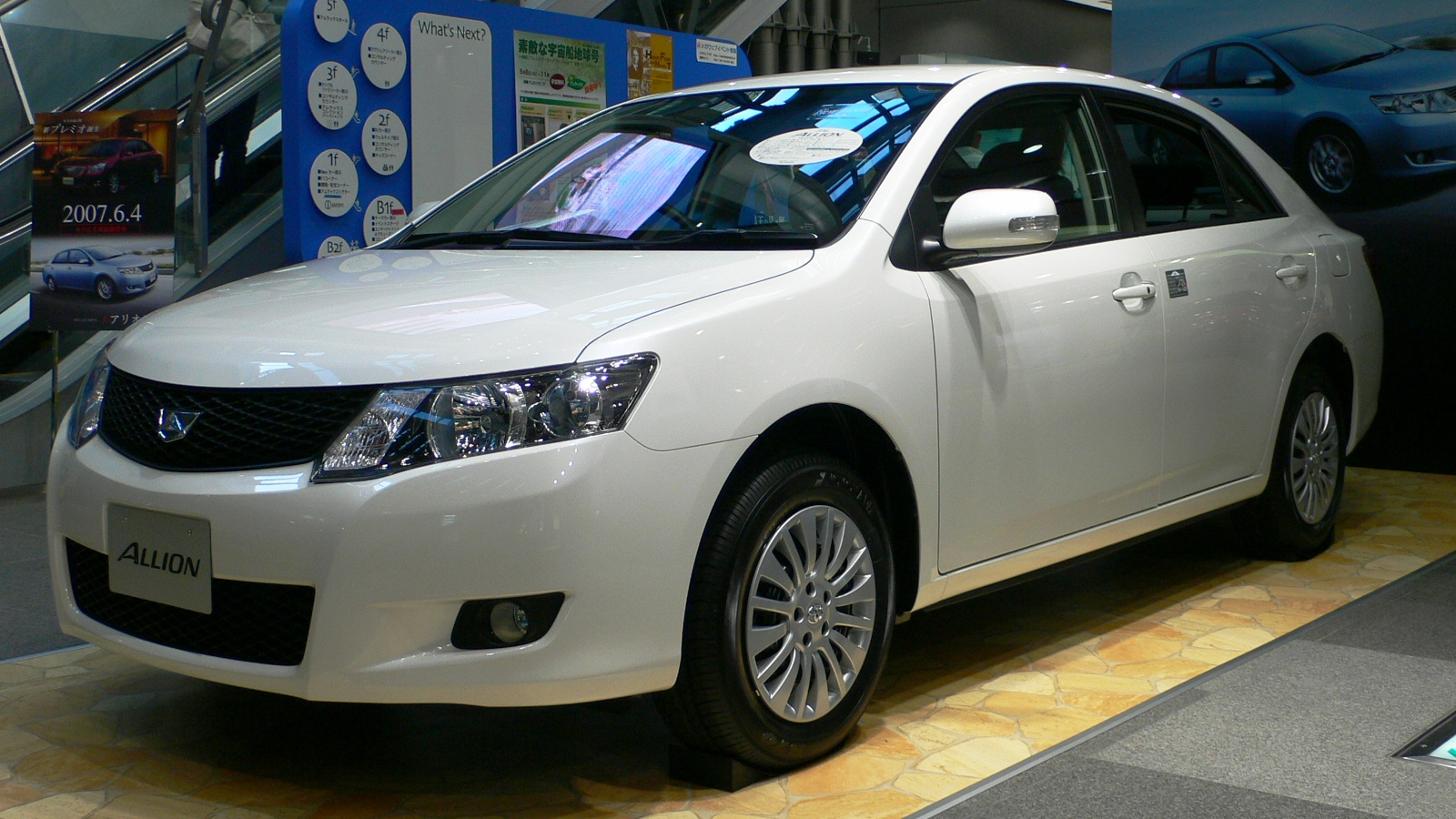 2nd generation Toyota Allion (2007 - ) photographed in AMLUX